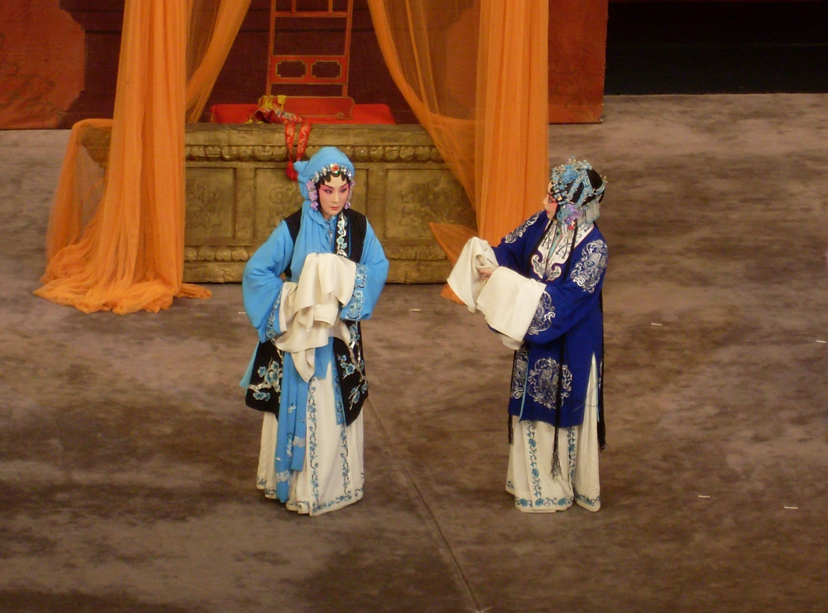 Beijing opera "Suo Lin Nang", 2011-08-06, Beijing